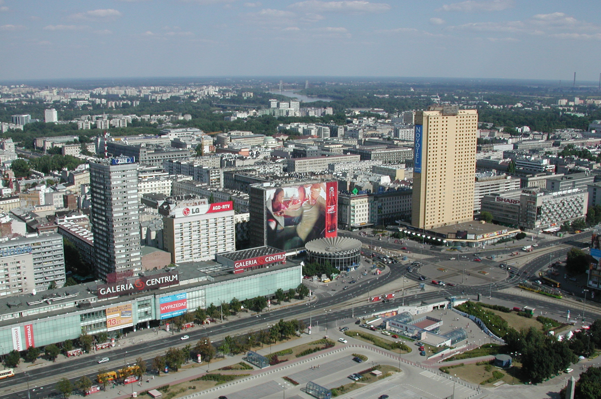 Poland, Dmowskiego Rondo in Warsaw